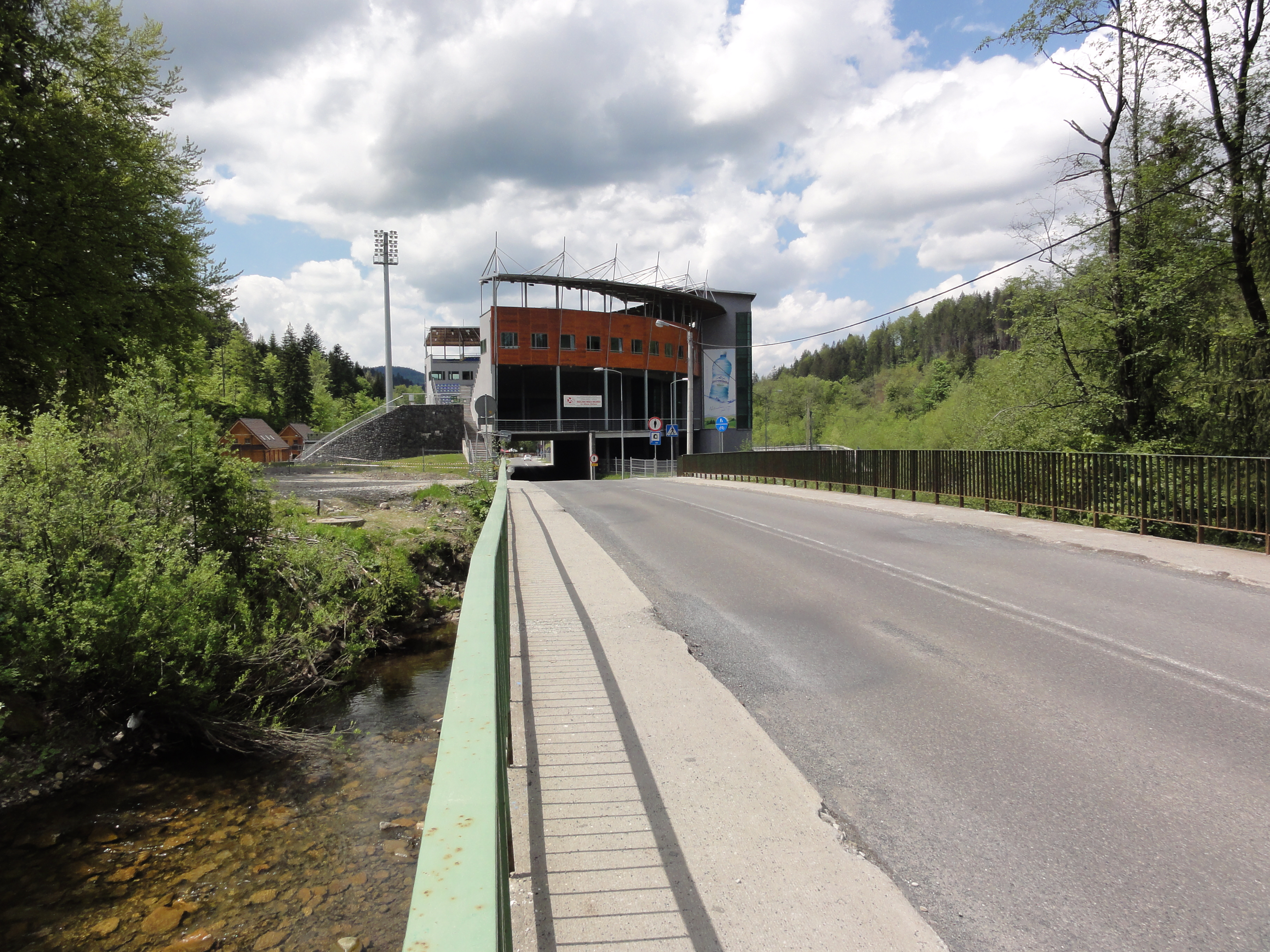 Voivodeship road 942 (Poland) over Malinka Stream and under Malink Ski Jumping Hill in Wisła-Malinka